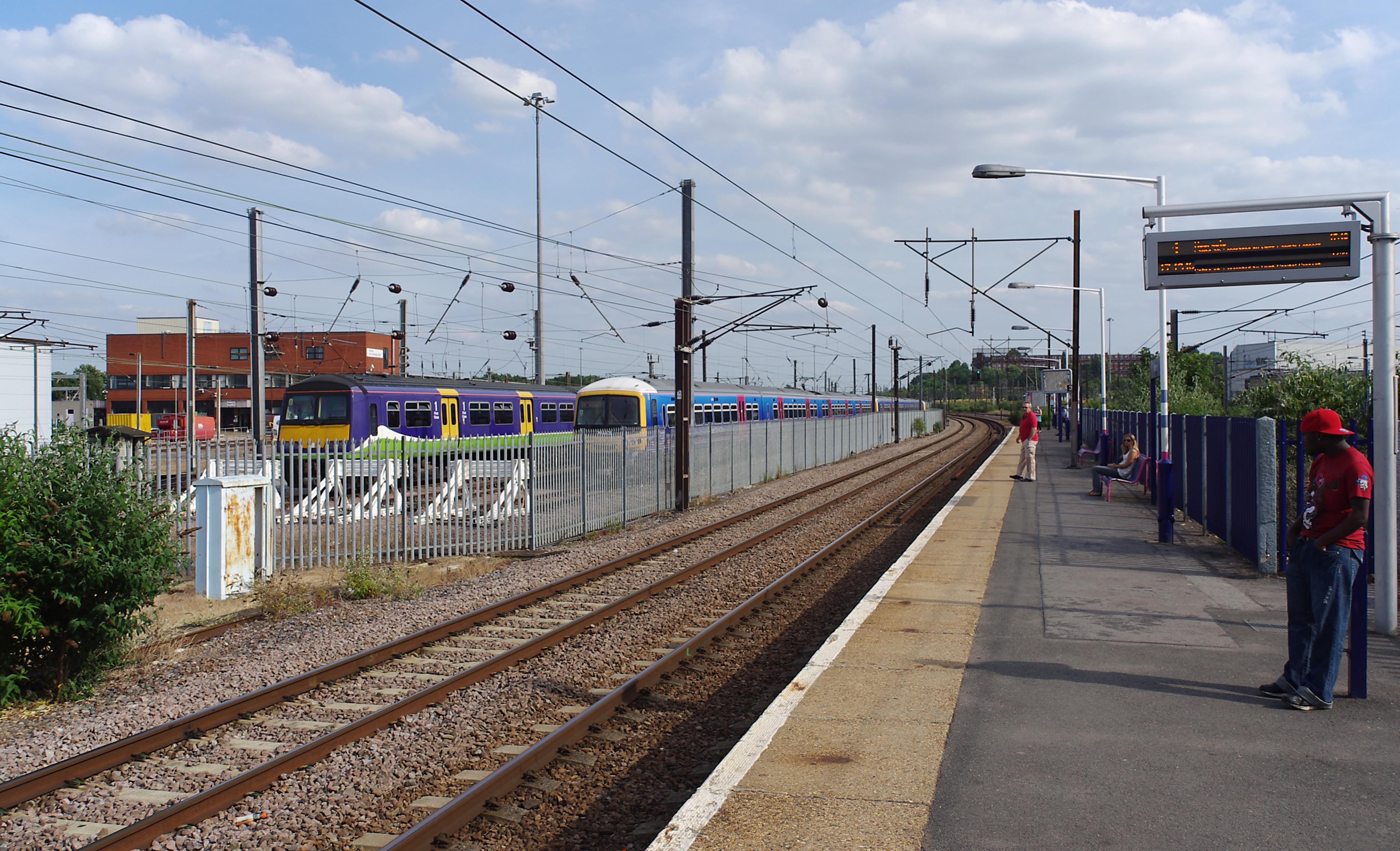 Hornsey railway station and TMD.